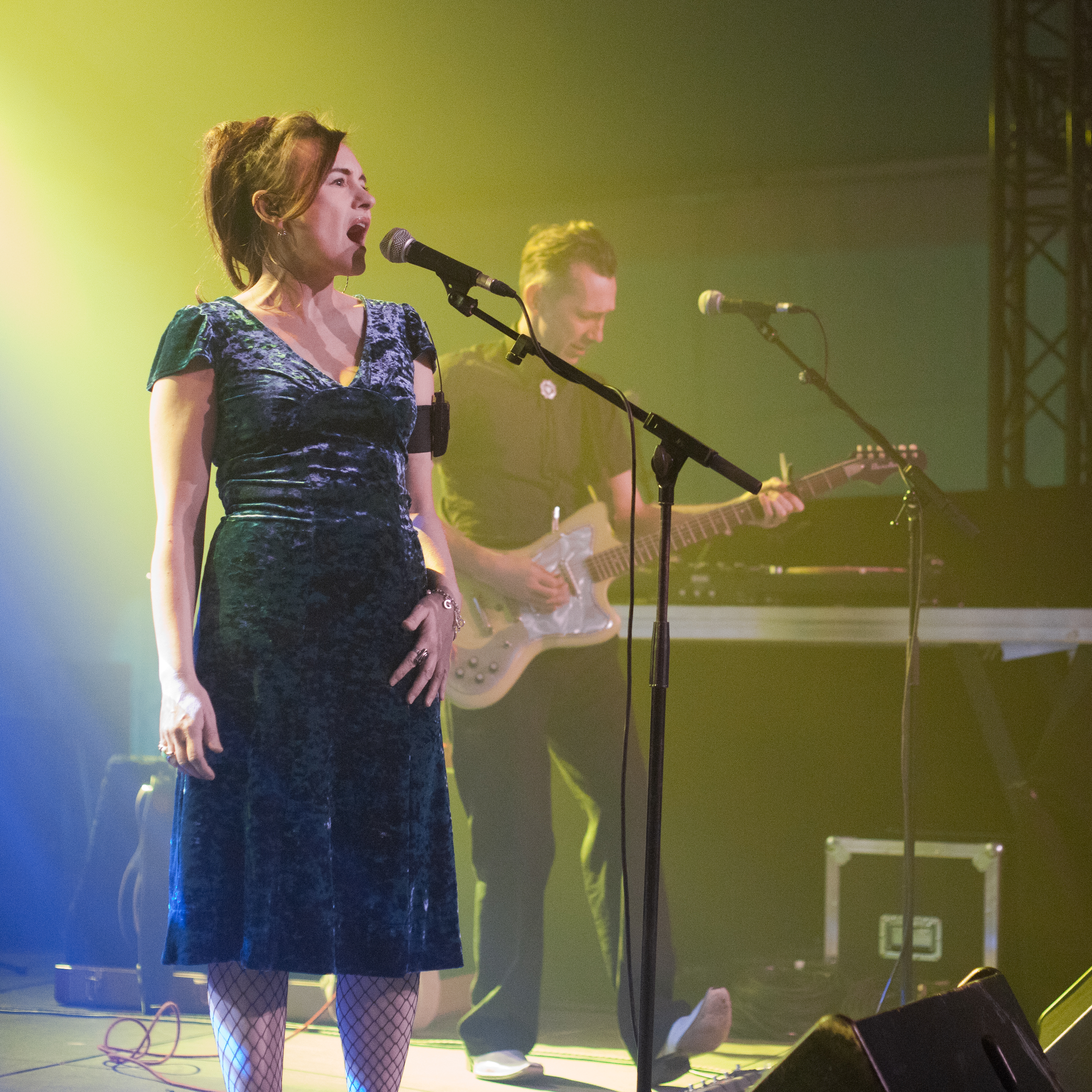 The making of this document was supported by Wikimedia CH. (Submit your project!) For all the files concerned, please see the category Supported by Wikimedia CH. 20th Leysin Nescafe Champs, 8th - 13th February 2011